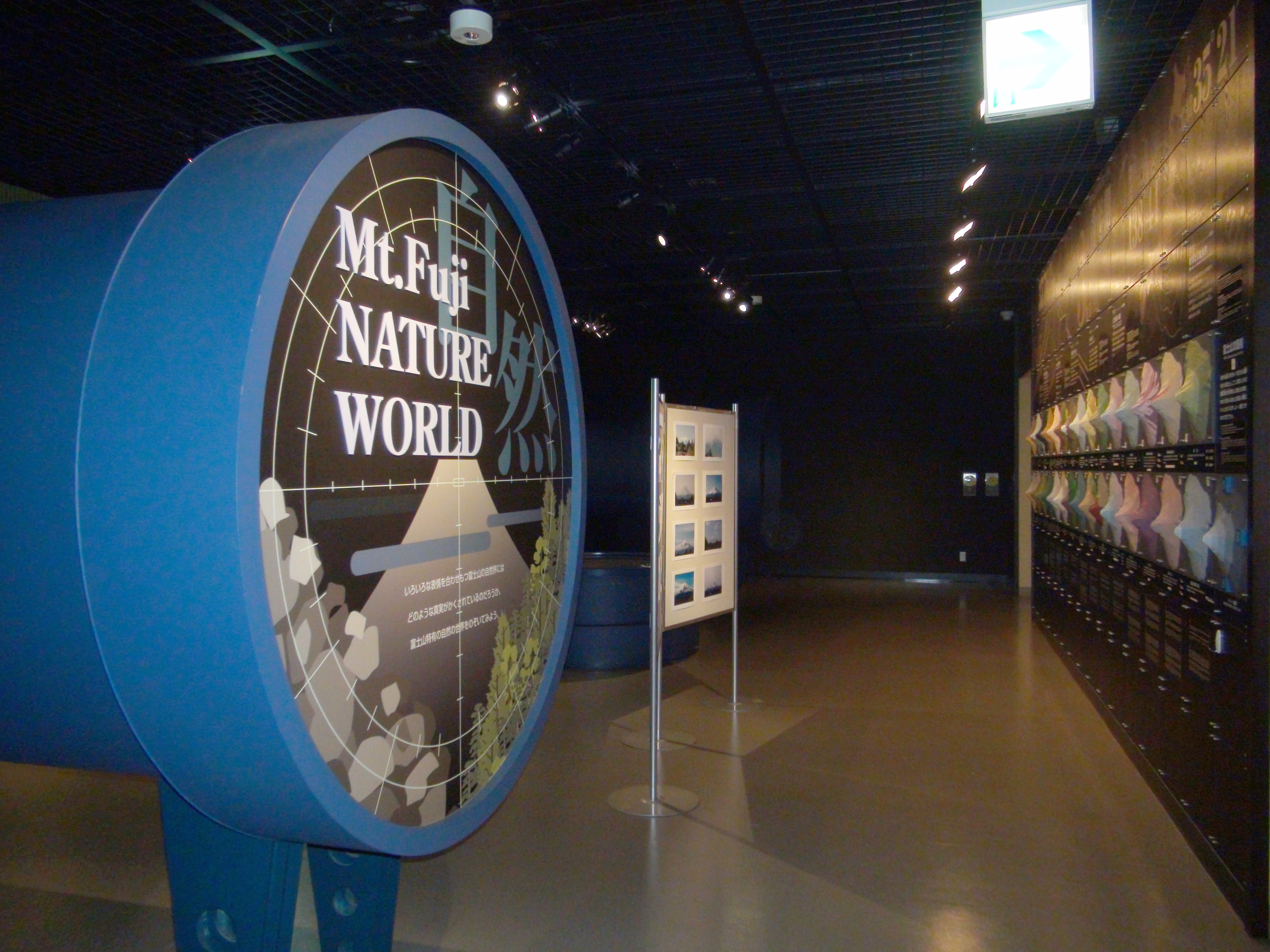 Yamanashi Prefectural Fuji Visitor Center exhibition